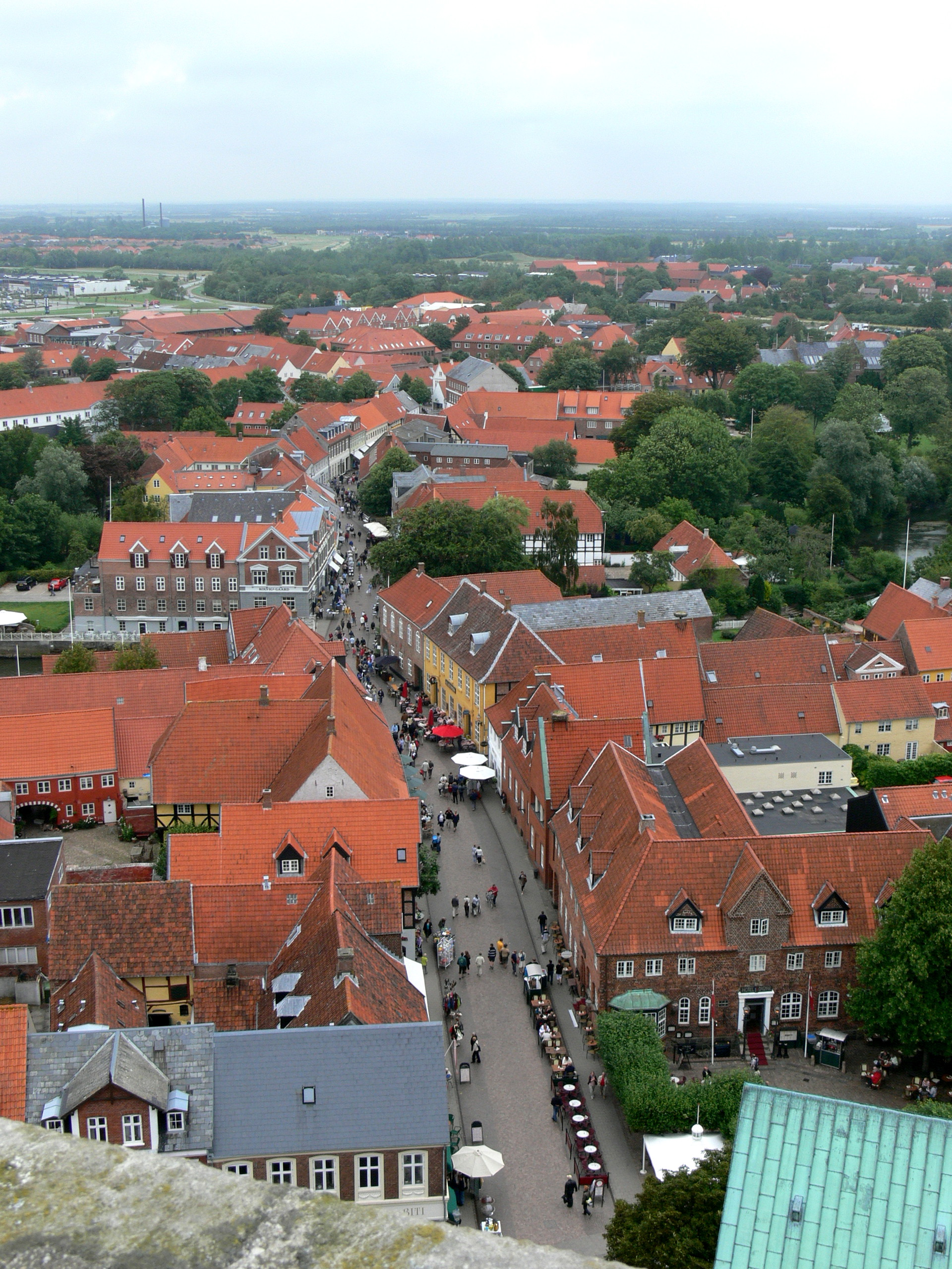 Ribe ( Denmark ). View over Ribe from the Cathedral church tower.